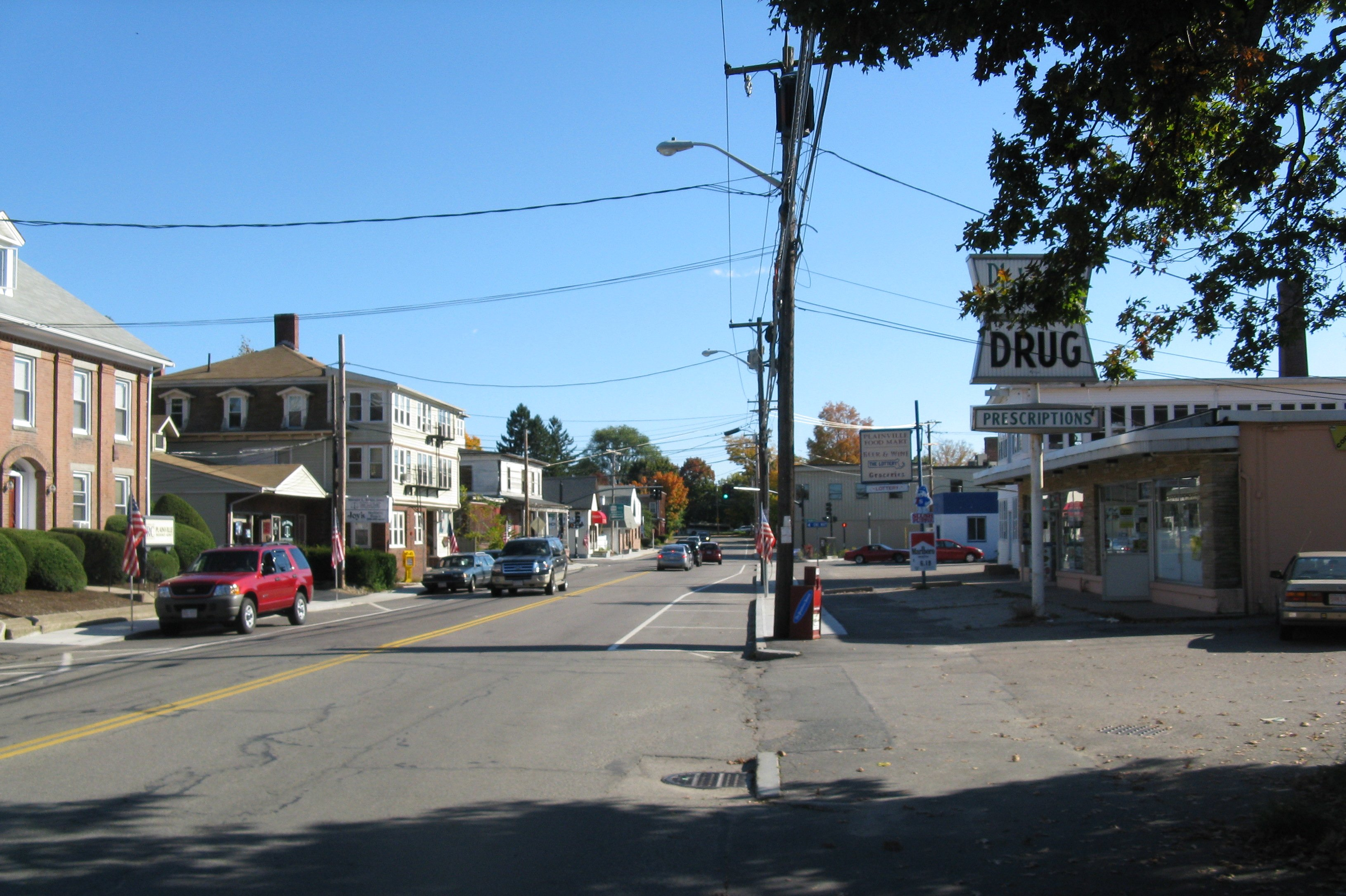 Looking South on Route 1A, Plainville Massachusetts